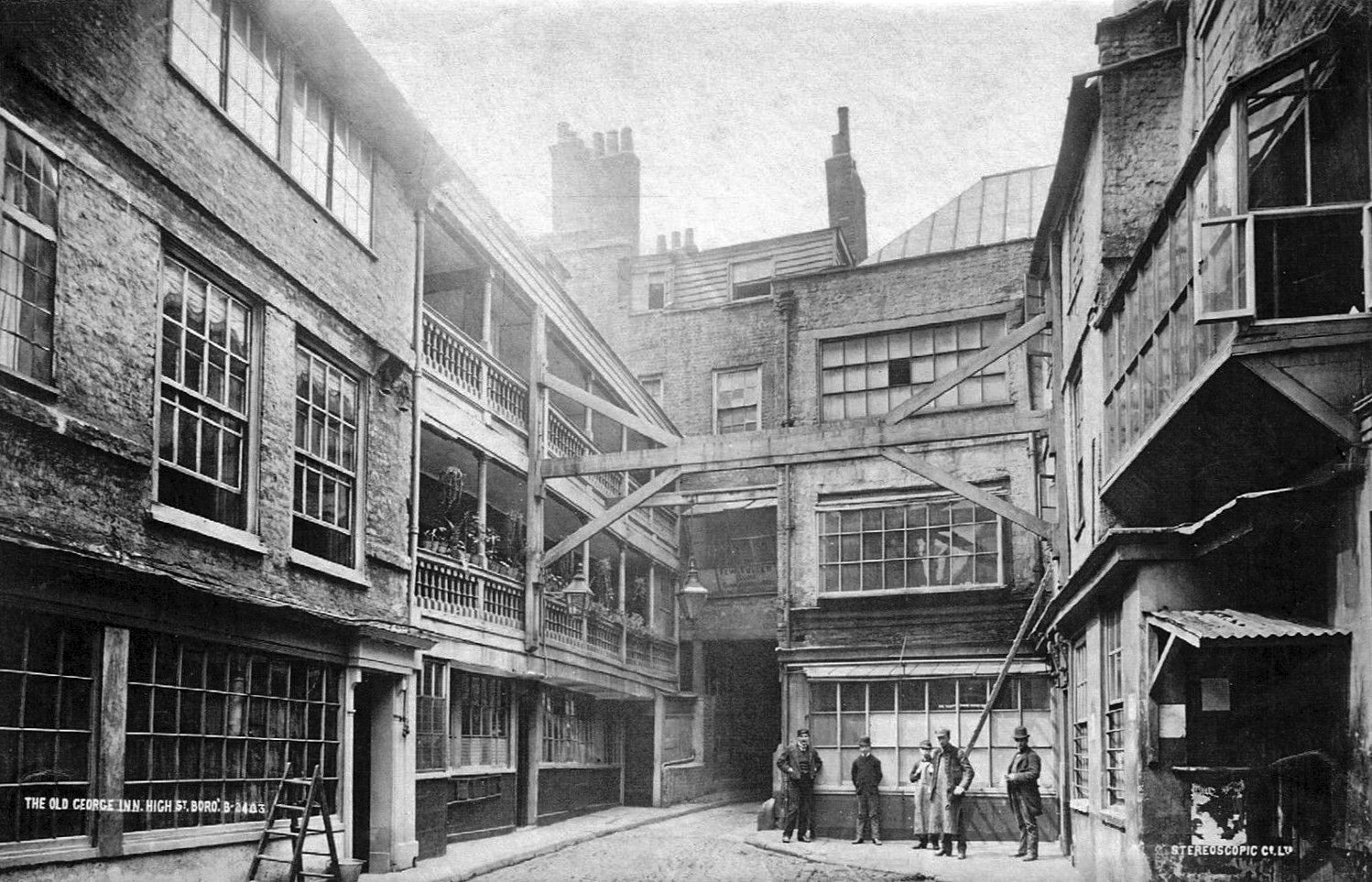 The George Inn, in High Street at Borough in Southwark, London, England. Photograph from 1889 by the Stereoscopic Company Ltd.